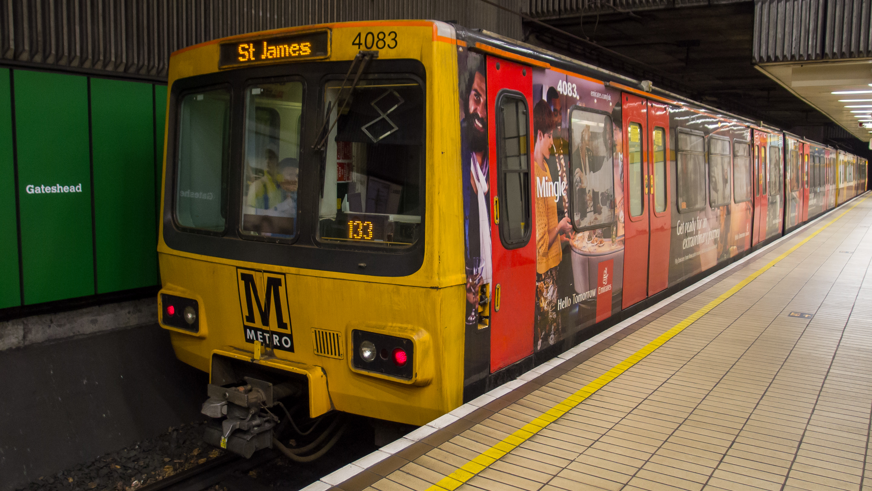 Metro train at Gateshead station